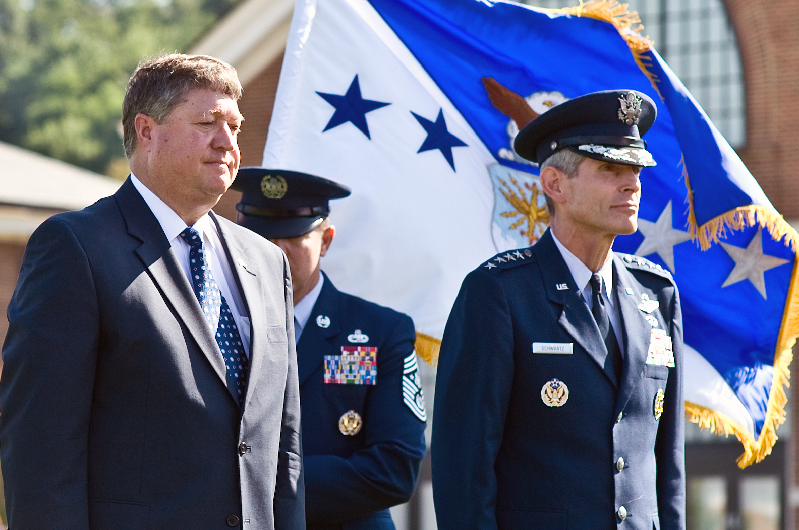 Acting Secretary of the Air Force Michael B. Donley, left, prepares to pass the ceremonial flag to the 19th Air Force Chief of Staff Gen. Norton A. Schwartz during a welcoming ceremony on Bolling Air Force Base, Washington, D.C., Aug. 12, 2008.